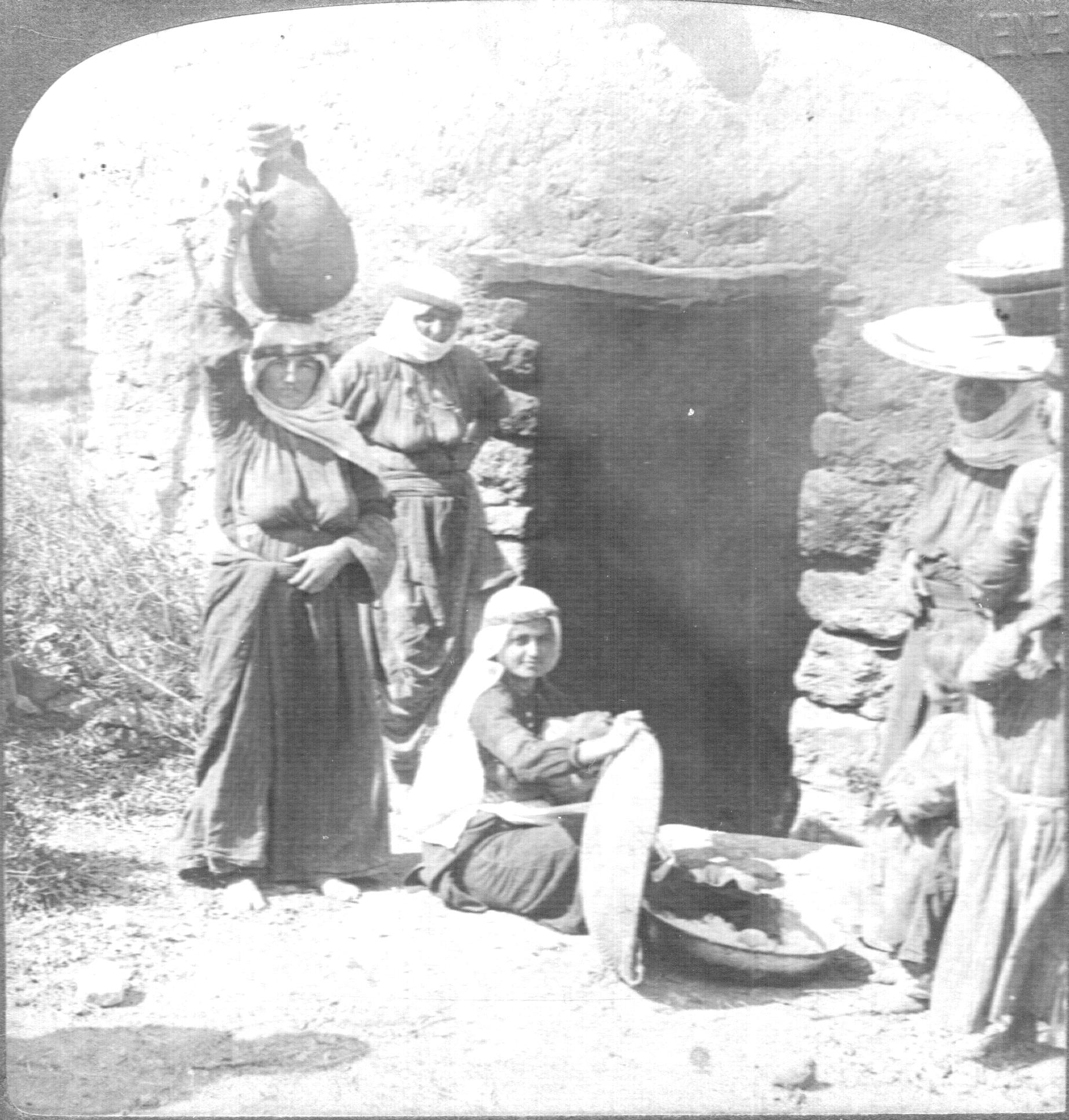 Druze women at the village owen, Dalleh, Mount Carmel around 1880. Scanned photo of a stereoview. Left part. PD-Underwood. Copyright 1900 by Underwood and Underwood (Kat.No 78 - 3157). Publishers New York London Toronto-Canada Ottawa Kansas. A common Underwood stereoview type has both the 4 digit catalog number and the boxed set number in parenthesis. It also has an extensive description of the view on the reverse side. ©© Published under Creative Commons in the Metapolisz DVD line. All of the photos and vids in the Metapolisz DVD line are under Creative Commons and can be used even for commercial – for profit – purposes. Recommended Citation Derzsi Elekes Andor: Metapolisz DVD line